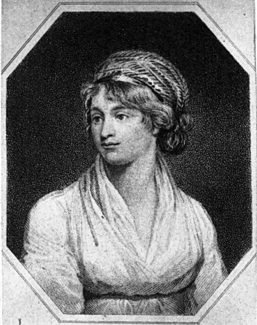 Mary Wollstonecraft (1759-1797) TITLE: [Mary Wollstonecraft, half-length portrait, facing left] CALL NUMBER: LOT 13301, no. 108 [P&P] REPRODUCTION NUMBER: LC-USZ62-64309 (b&w film copy neg.) No known restrictions on publication. MEDIUM: 1 photographic print on carte de visite mount. CREATED/PUBLISHED: New York : George G. Rockwood (1832–1911) Alternative names George Gardner Rockwood; G.G. Rockwood; G. G. Rockwood; G. C. Rockwood; George RockwoodDescriptionAmerican photographer, journalist, inventor and war photographerDate of birth/death 12 Apr 1832 10 Jul 1911Location of birth/death Troy, New York Lakeville, ConnecticutWork periodfrom 1853 until circa 1906 date QS:P,+1906-00-00T00:00:00Z/9,P1480,Q5727902Work location New York City Authority control : Q20035913 VIAF: 29834057 ISNI: 0000 0000 6661 4954 ULAN: 500040747 LCCN: n88023586 GND: 133533379 WorldCat creator QS:P170,Q20035913 NOTES: Title devised by Library staff. Photograph of a stipple engraving by James Heath, ca. 1797, after a painting by John Opie. Stamped on verso: Sewall Coll. Reference copy in BIOG FILE. FORMAT: Portrait prints Reproductions 1850-1870. Cartes de visite 1850-1870. Photographic prints 1850-1870. REPOSITORY: Library of Congress Prints and Photographs Division Washington, D.C. 20540 USA DIGITAL ID: (digital image from b&w film copy neg.) cph 3b11901